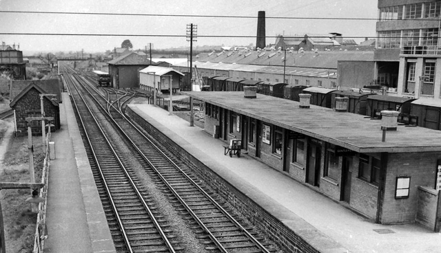 Bentham railway station, England., . View westward, towards Lancaster, Morecambe/Heysham Harbour; ex-Midland Hellifield - Clapham - Wennington - Carnforth/Lancaster - Morecambe/Heysham secondary main line. (On 3 January 1966, the direct line Wennington - Lancaster - Morecambe was closed; trains now reach Morecambe and Heysham via Carnforth).